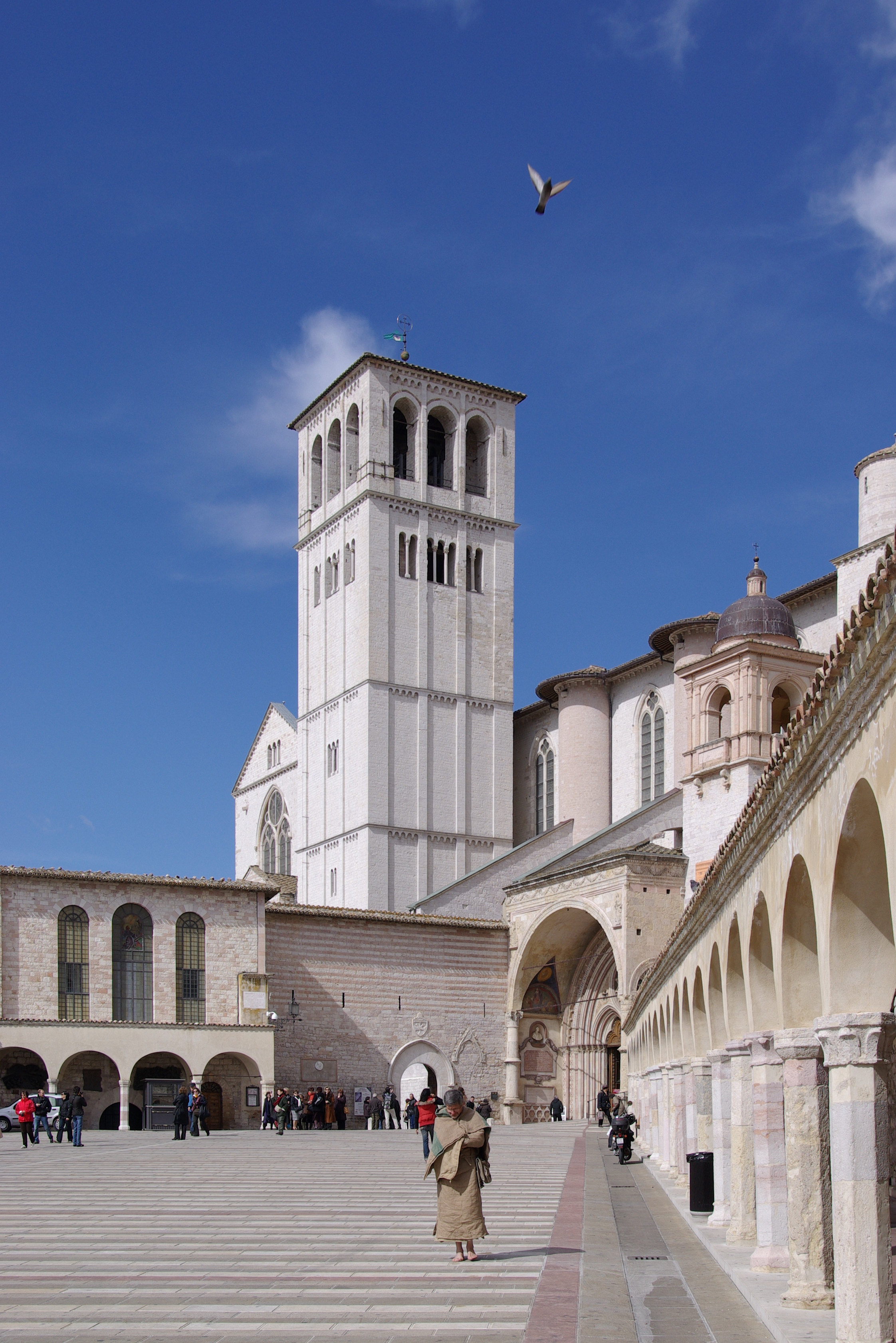 Assisi, Basilica San Francesco